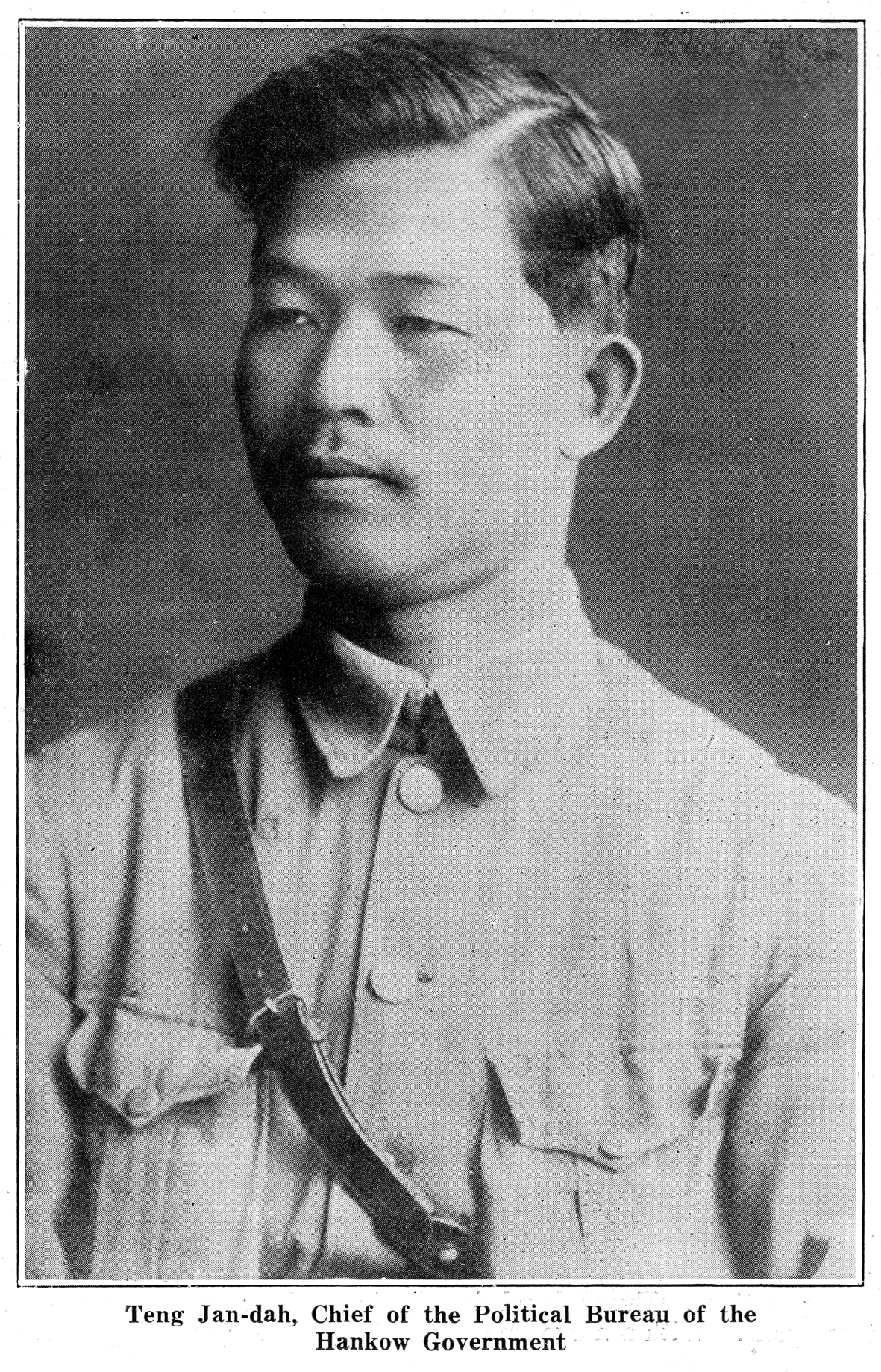 Photograph of Teng-Jan-Dah (Deng Yanda) scanned from The Far Eastern Review April 1927- P. A. Crush Chinese Railway Collection